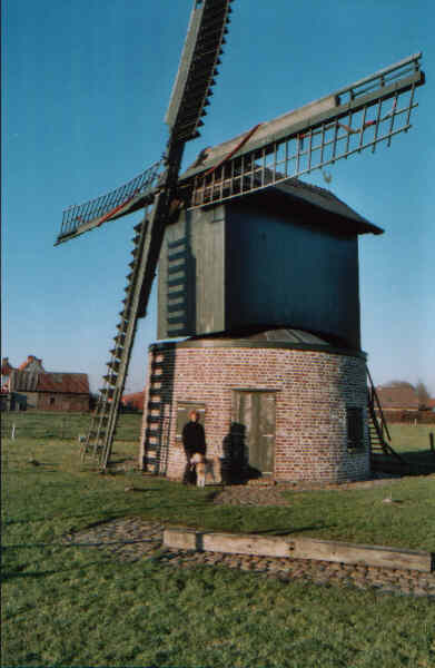 Preetjes Molen windmill in Heule, Kortrijk, West-Flanders, Belgium